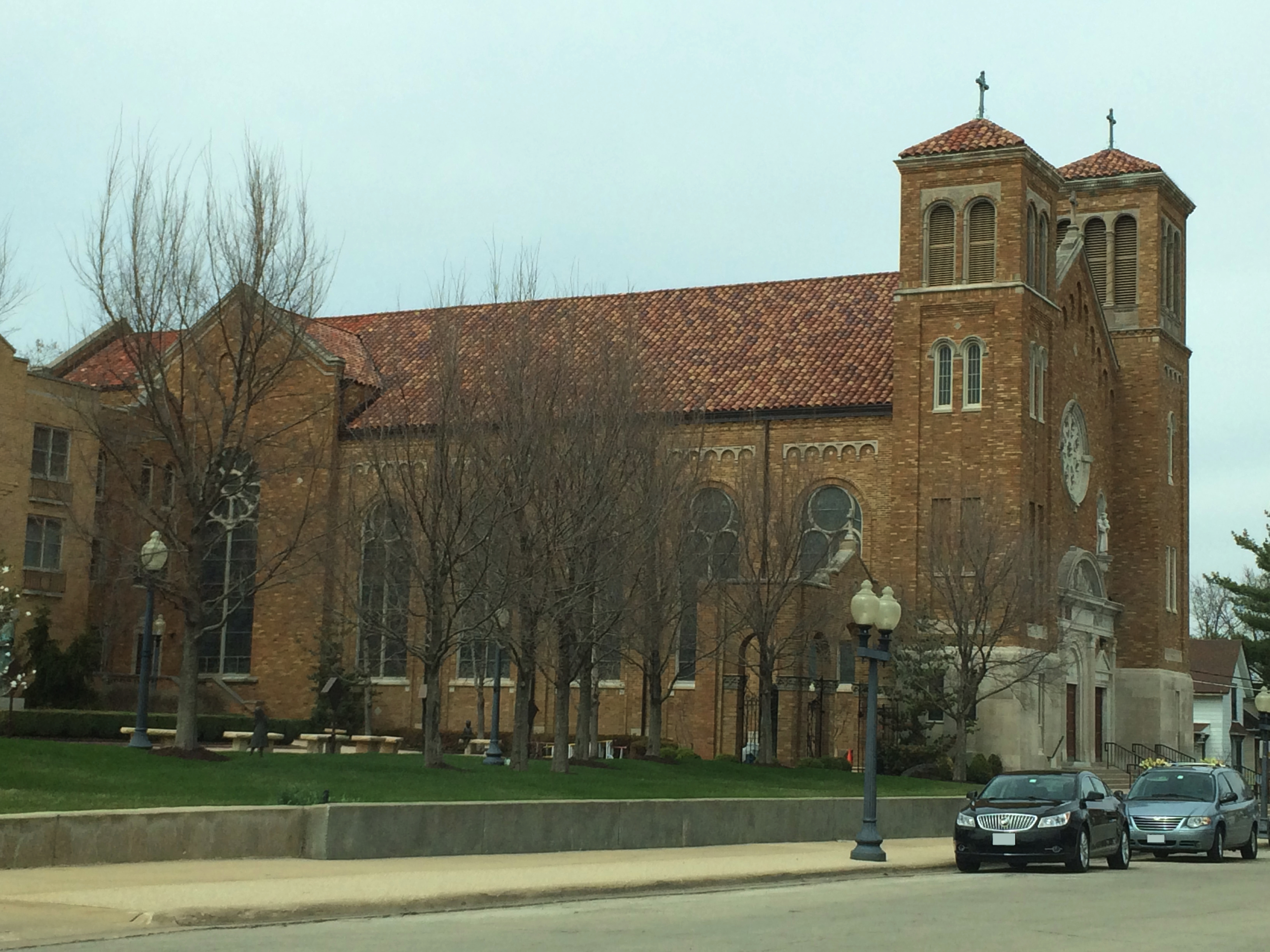 St Anthony of Padua church on Ferguson St in south Rockford (edited)